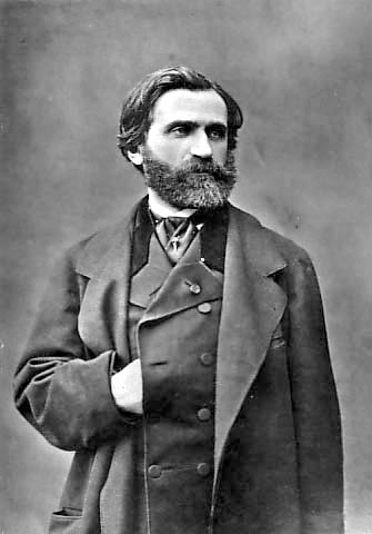 Italian composer Giuseppe Verdi (1813-1901). Photographer unknown, year unknown (ca. 1850?).